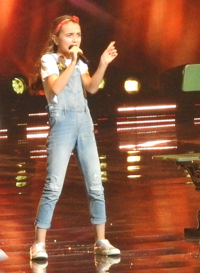 French singer Angelina performs at the dress rehearsal ahead of the 2018 Eurovision Junior Song Contest in Minsk.